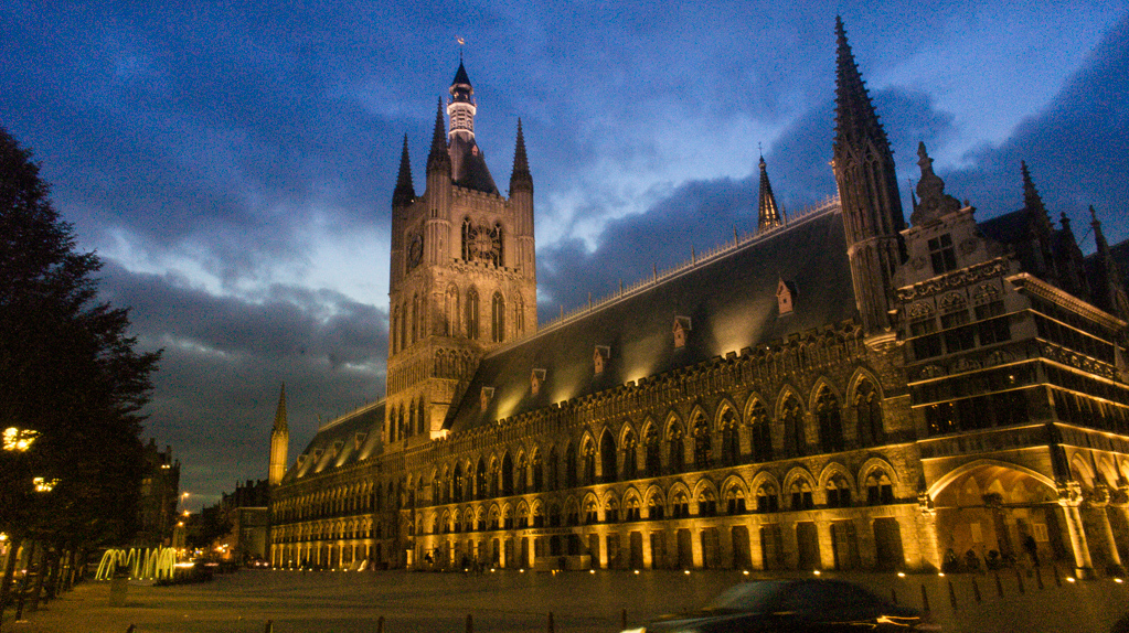 The Cloth Hall of Ieper is one of Europe's largest examples of Gothic architecture. Razed during World War 1, its restoration was completed in 1967. The In Flanders' Fields Museum is located on the second floor of the Cloth Hall.